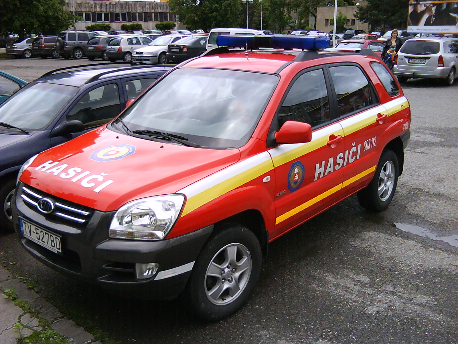 Fire rescue vehicle type 6B (Slovak abbreviation "AHZS 6B"; Command Vehicle) Kia Sportage of Trebišov District directorate of Fire and Rescue Corps of the Slovak Republic.